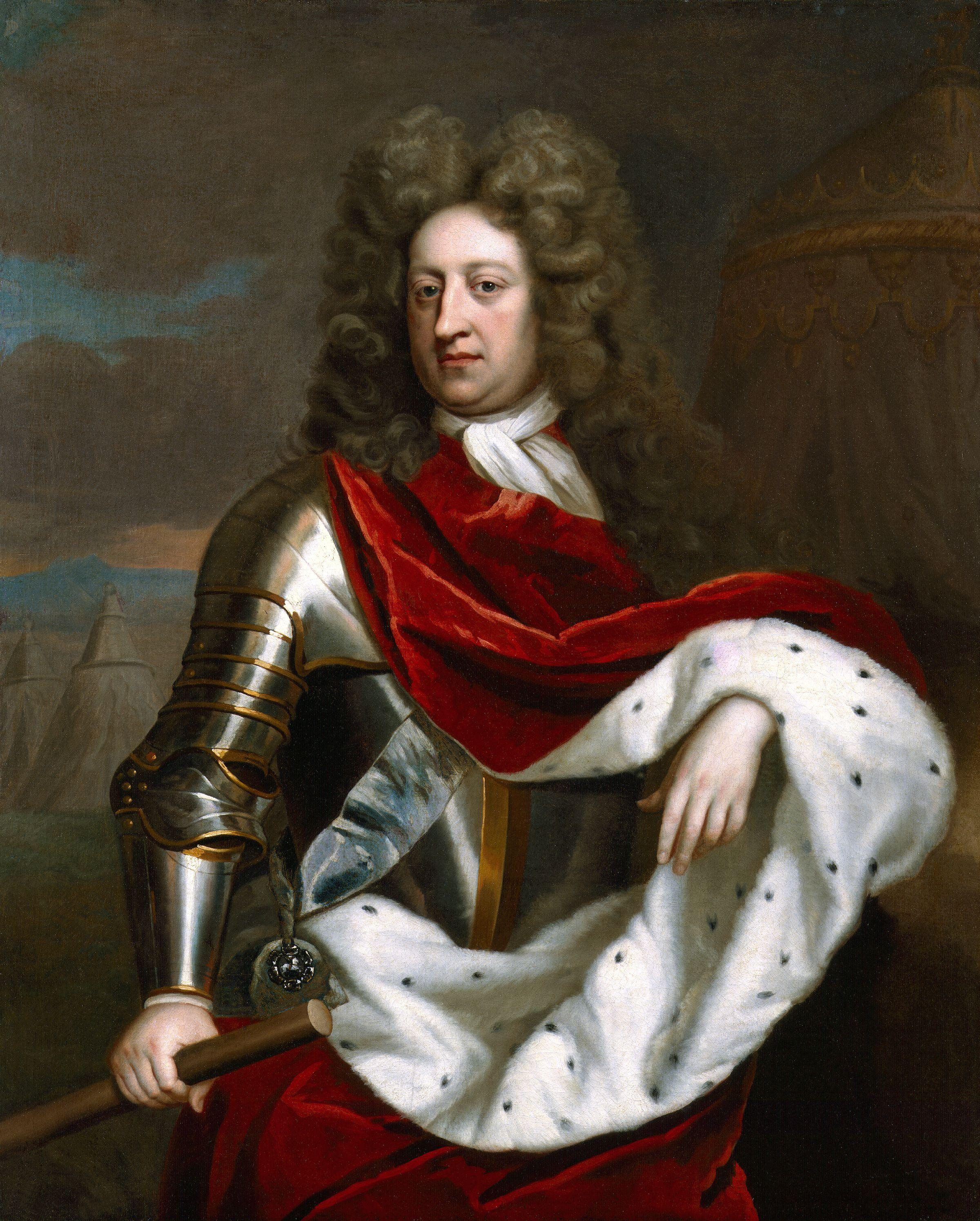 All images in this batch have been confirmed as author died before 1939 according to the official death date listed by the NPG.